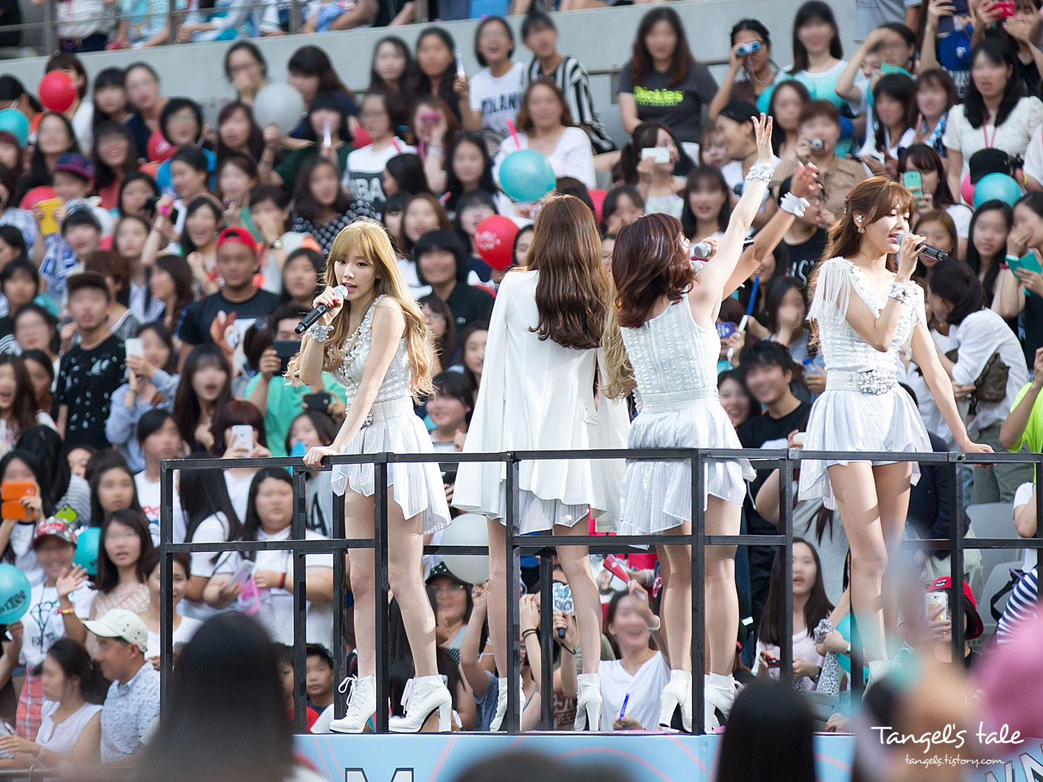 Girls' Generation at the 2014 SMTOWN in Seoul.